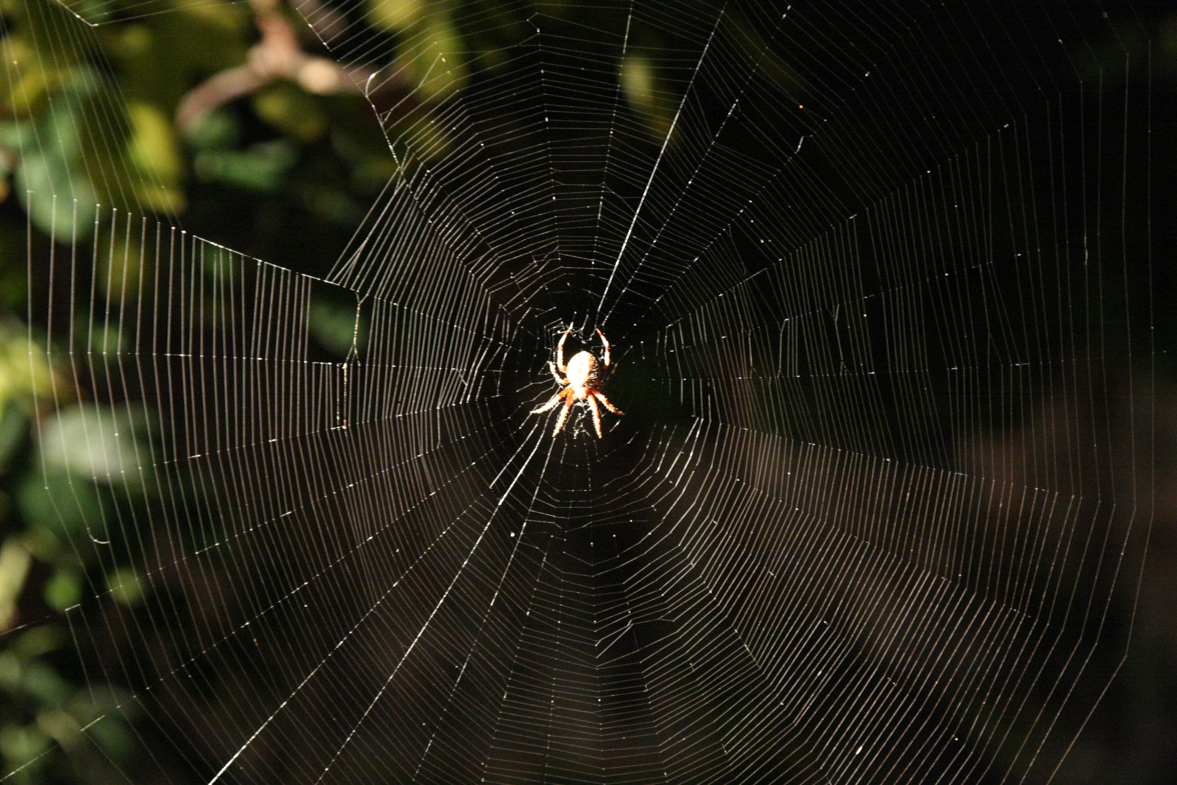 Araneus diadematus (European garden spider), San Jose, California.